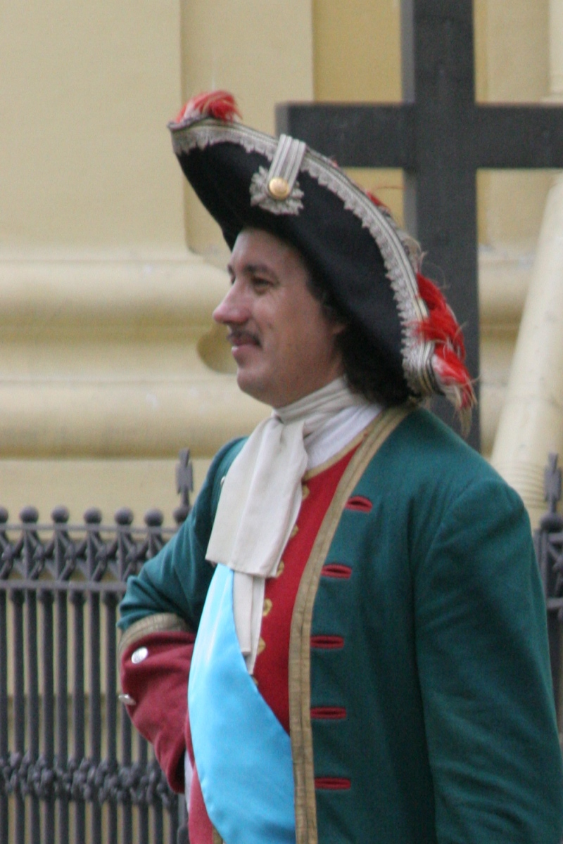 Peter the Great Reenactor wearing a Tricorne hat, St. Petersburg, Russia